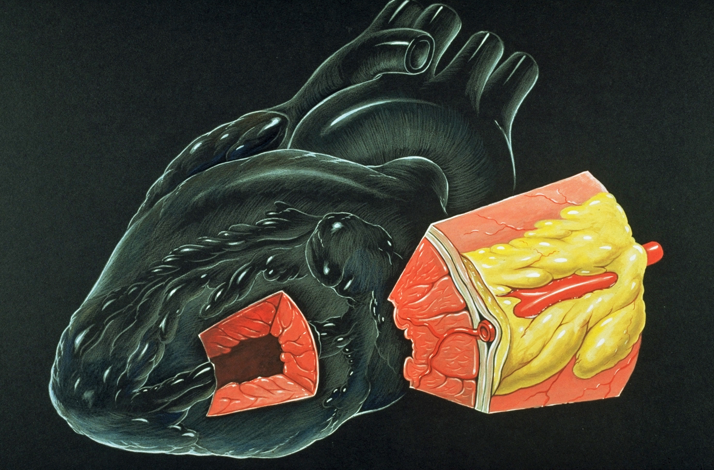 Heart myocardium (heart muscle) and coronary artery diagram